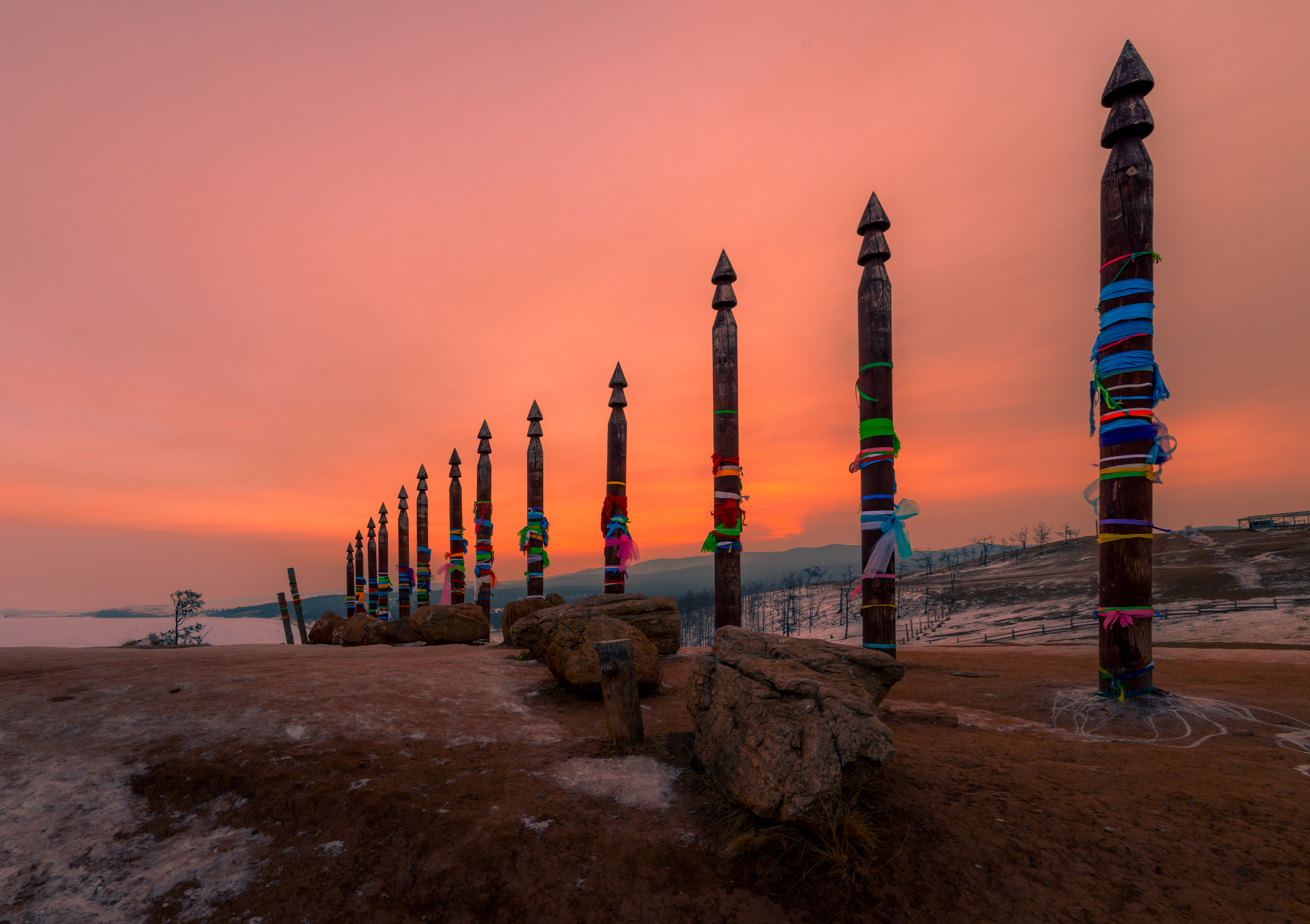 Ritual shaman pillars know as serge with colored ribbons, before sunrise on sacred Cape Burhan, Olkhon Island, Lake Baikal, Russia. Territory of Pribaikalsky National Park (Russian: Прибайкальский национальный парк), which covers the southwestern coast of Lake Baikal in southeastern Siberia.